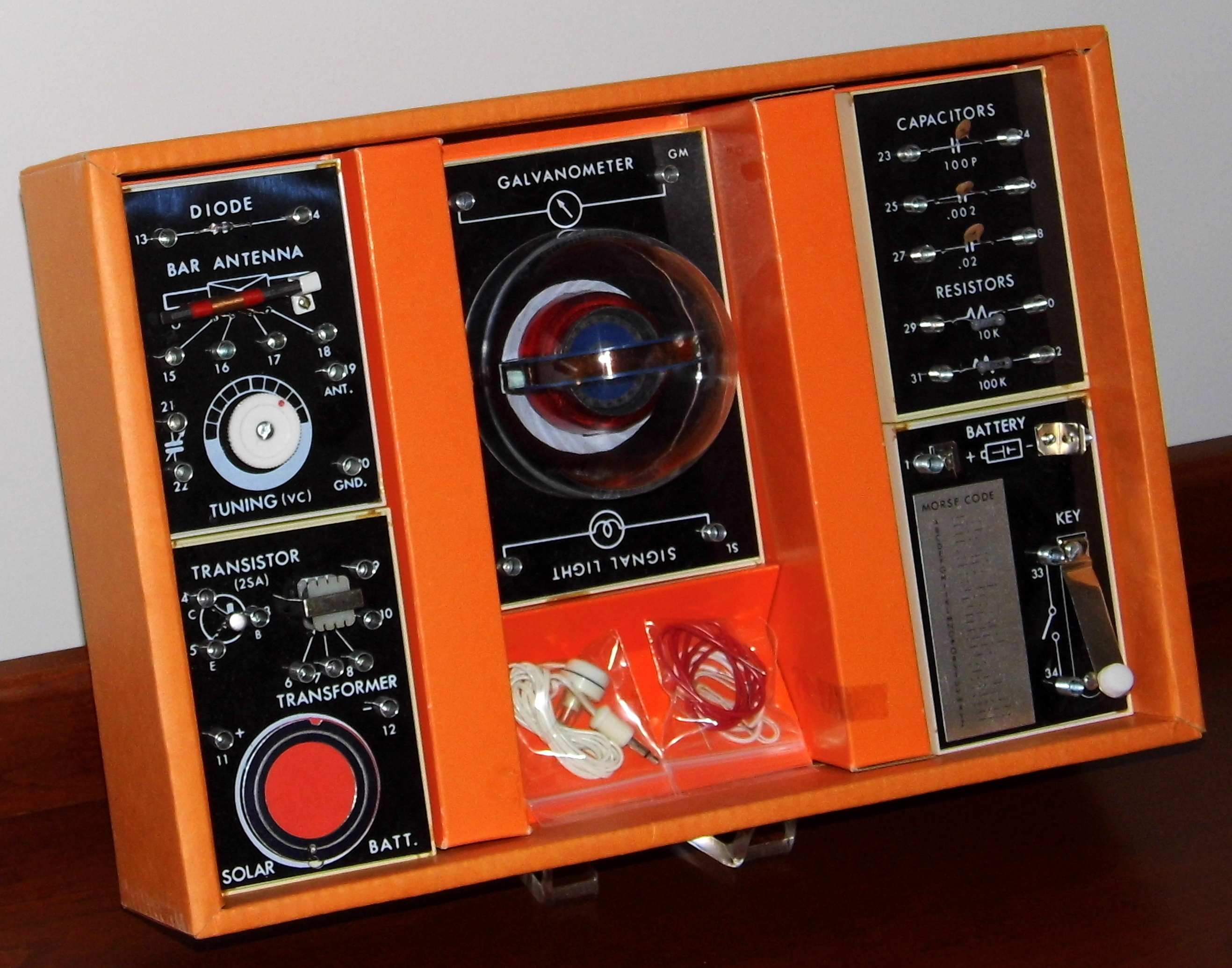 Vintage Lafayette 20-In-1 Electronic Project Kit, Stock No. 99-35214, Lafayette Radio Electronics Corporation (LRE), Made In Japan, Instruction Booklet Copyright 1970